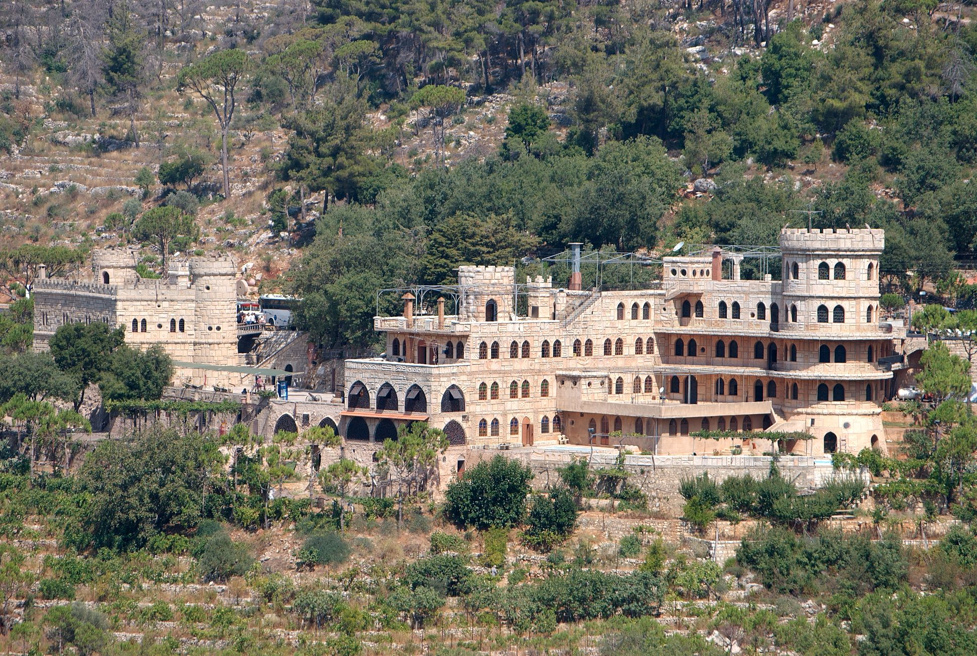 Moussa's castle near Beiteddine, Lebanon. View from the opposite side of the valley